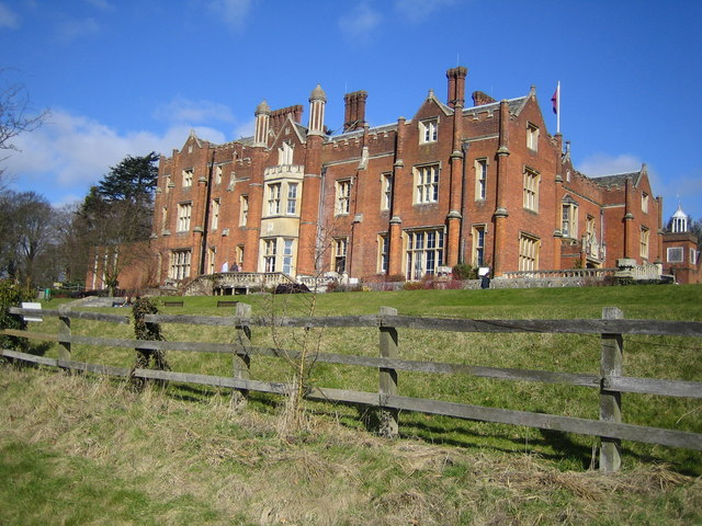 Latimer House. Built in 1838 and replacing an old manor house on the site, this was originally the home of Lord Chesham. From 1947 to 1983 it was used as the Joint Services Staff College, which existed to train officers to fill joint command and staff appointments by studying modern war on a joint service basis and by widening their knowledge of inter-service problems. It is currently in use as a residential conference venue operated by Initial Style Conferences whose website for this location is here